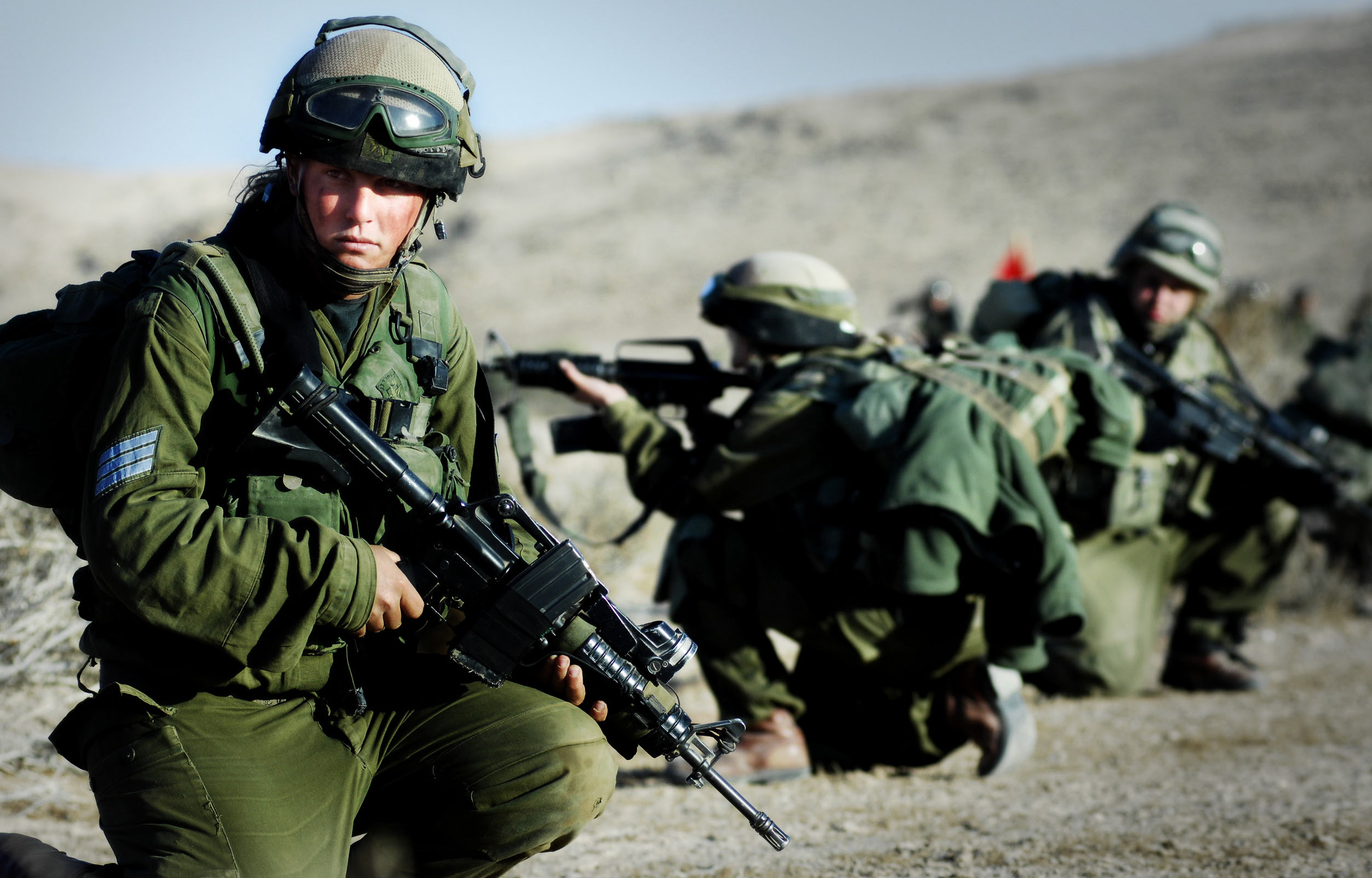 November 13, 2007. The Karakal Battalion during its first winter training session, held in an open area in Southern Israel. גדוד קרק"ל באימון החורף הראשון שלו, אשר נערך בשטח פתוח בדרום הארץ.